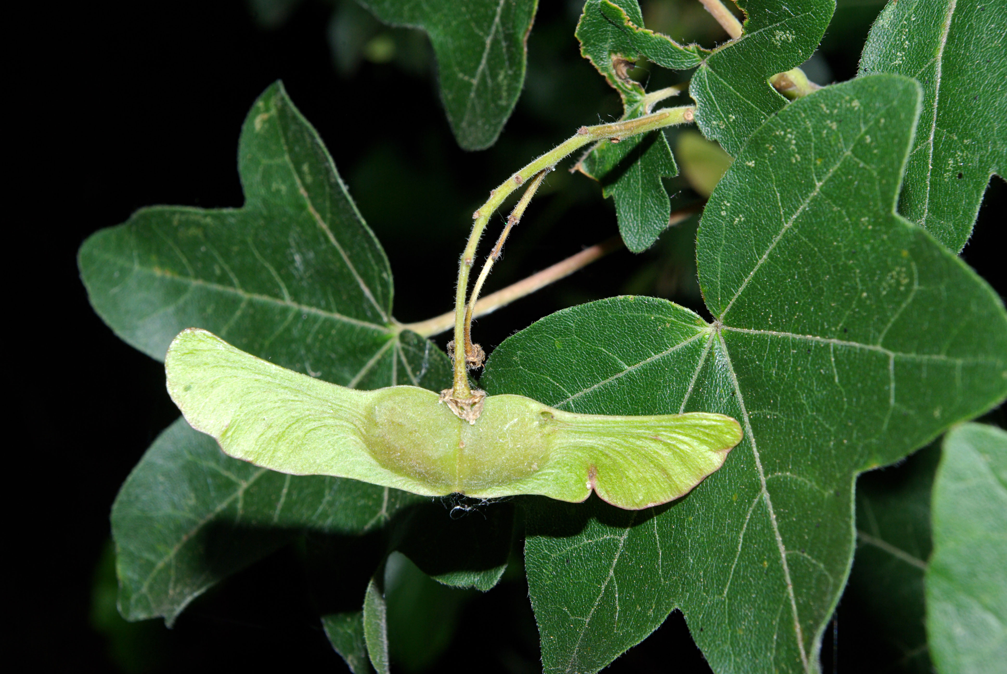 Field Maple (Acer campestre) near Salas de los Infantes, Burgos (Spain)